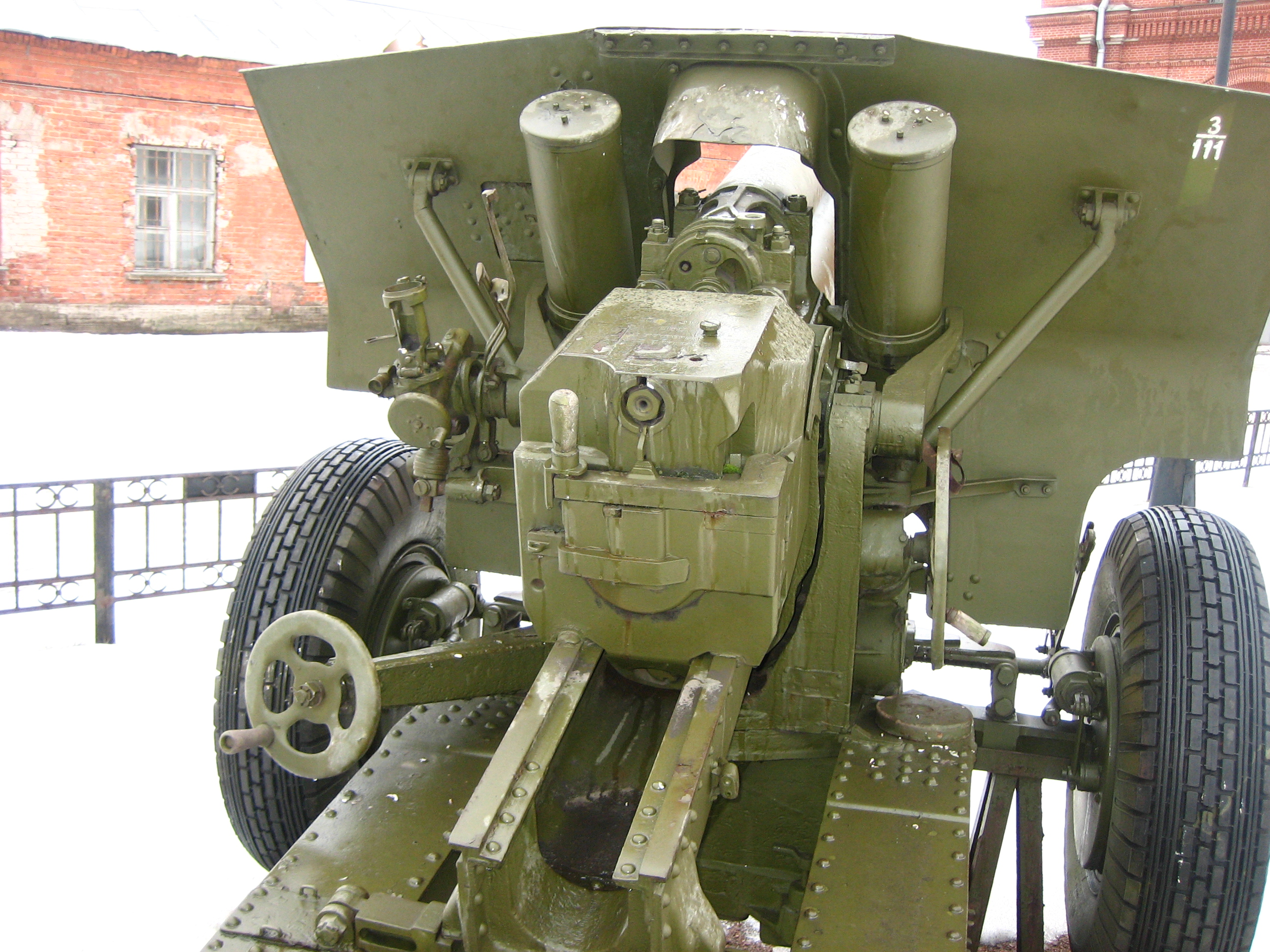 Soviet 107 mm M-60 Mark 1940 gun, displayed in Saint Petersburg Artillery Museum. Photo taken on 3 Marсh, 2007. Source: Photo by me, User:Saiga20K.